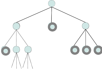 Kolmogorov probability similar to universal probability - step 3.